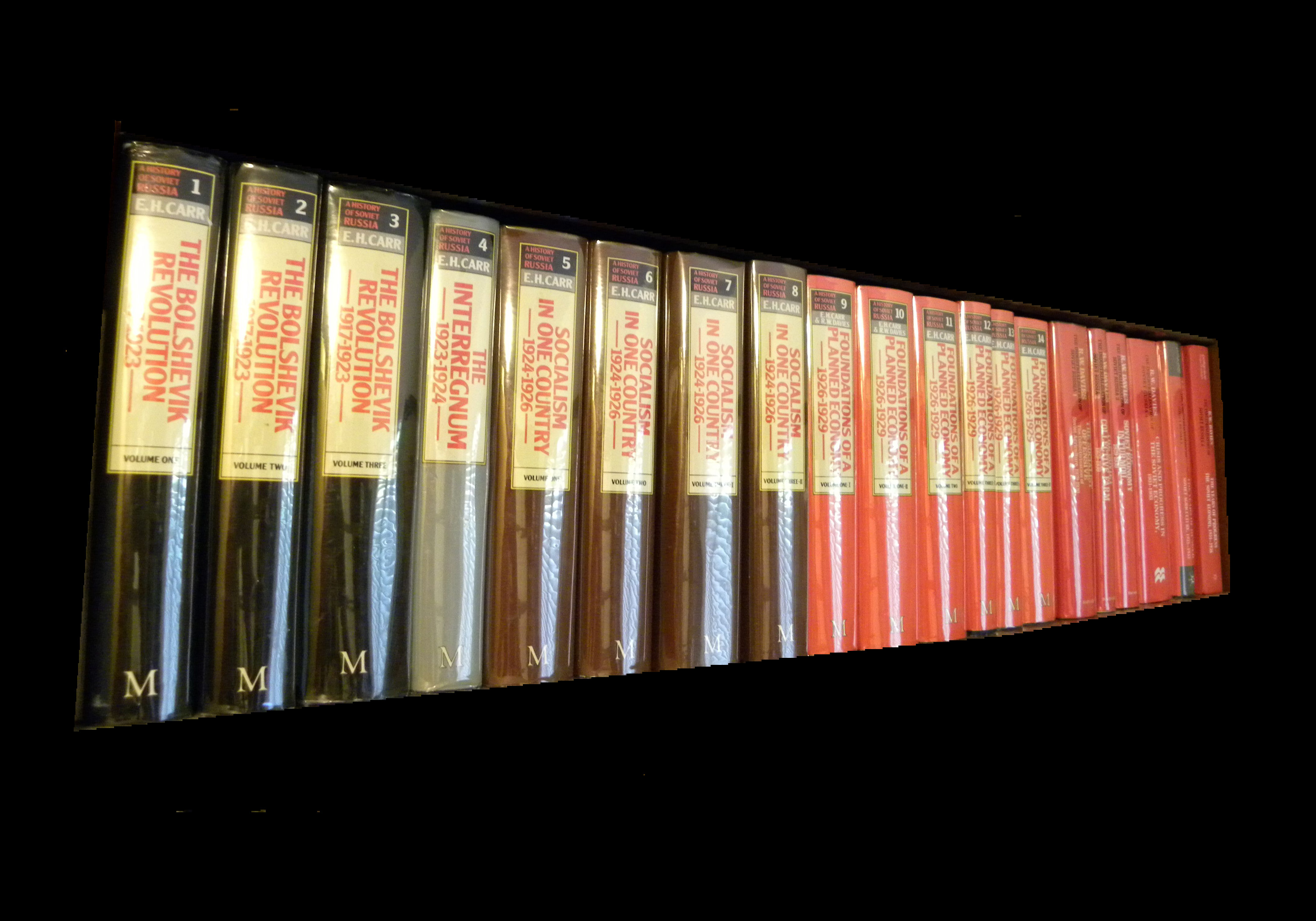 Stylized shelf of dust jacket spines featuring books by E.H. Carr and R.W. Davies. Nothing copyrightable showing.